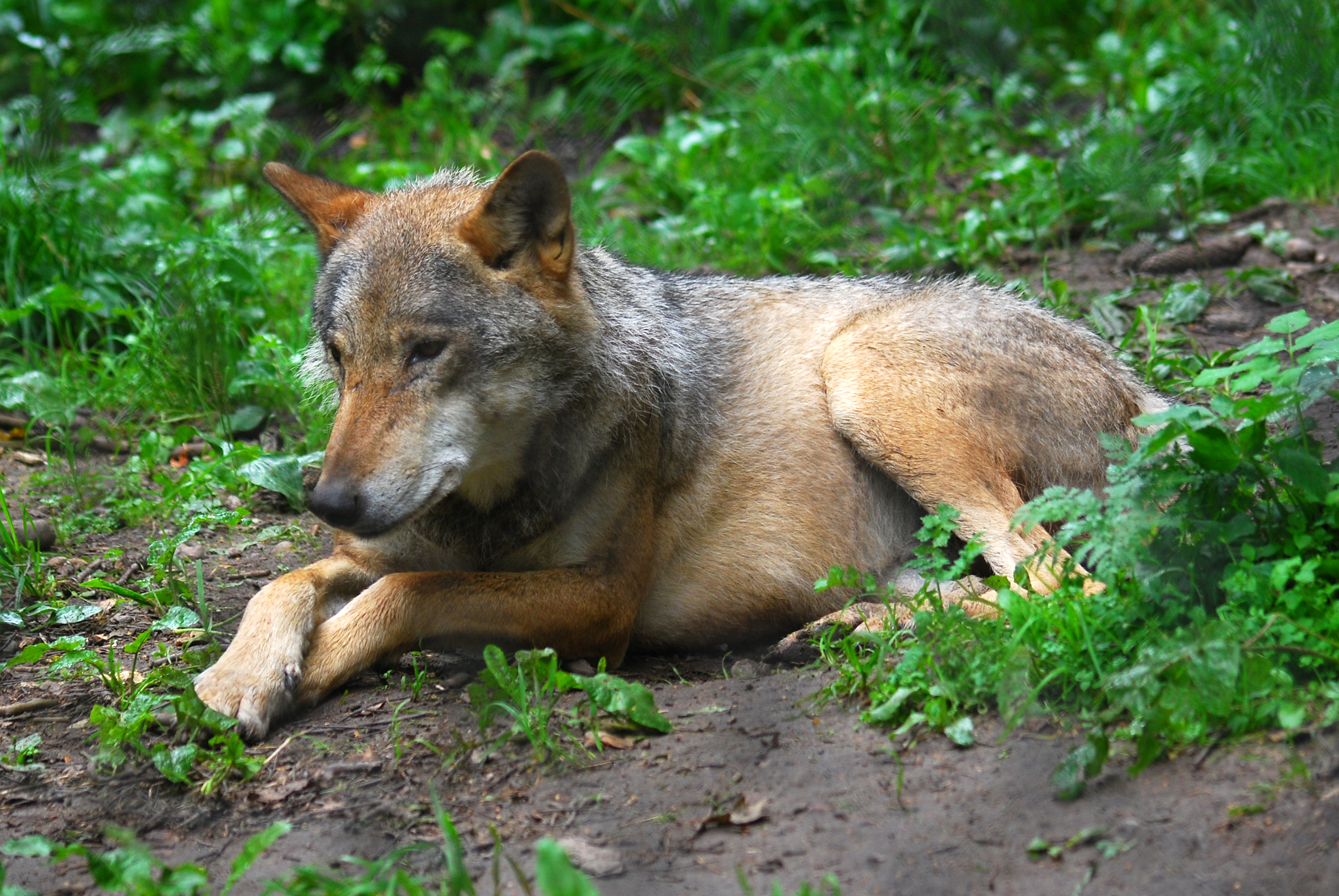 This photo from Podlaskie Voievodeship was taken during Polish Wikiexpedition 2009 set up by Wikimedia Polska Association. The making of this document was supported by Wikimedia Polska. Canis lupus